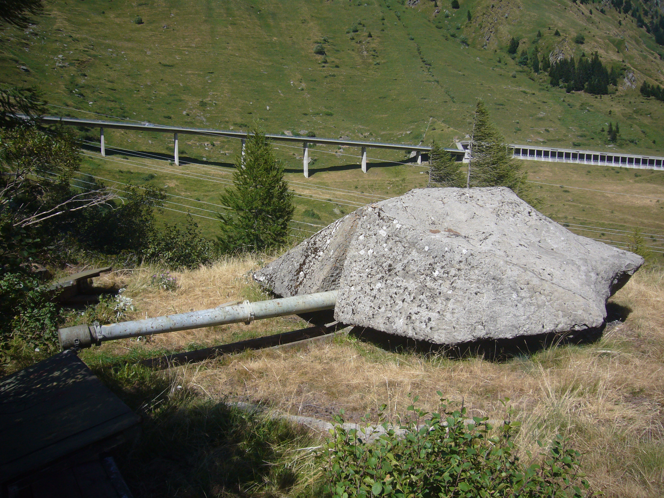 Foppa Grande minus camouflage of the cannon: Artilleriefort Foppa Grande A 8370